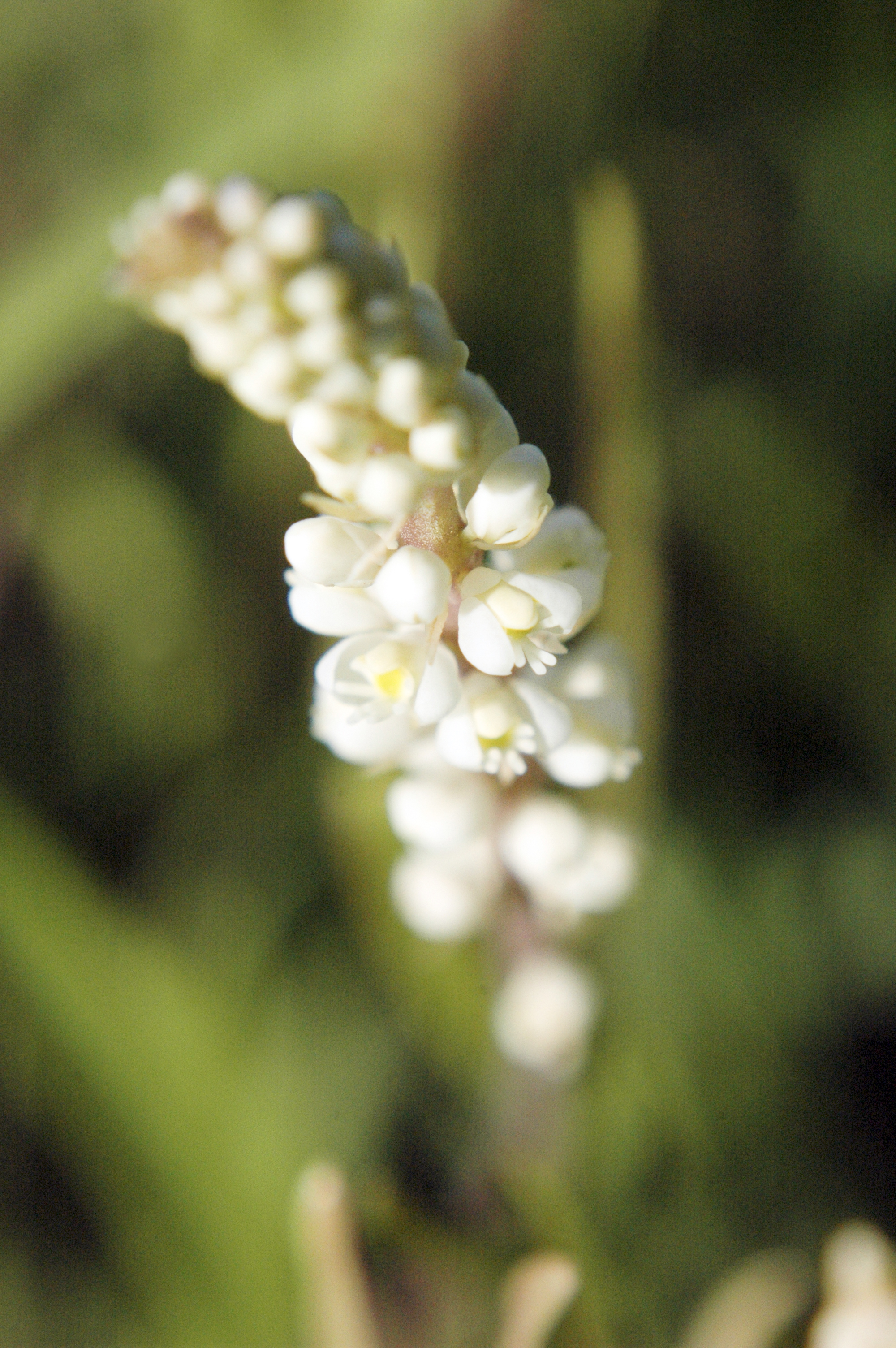 Polygala senega, James Woodworth Prairie Preserve, Glenview, IL, USA